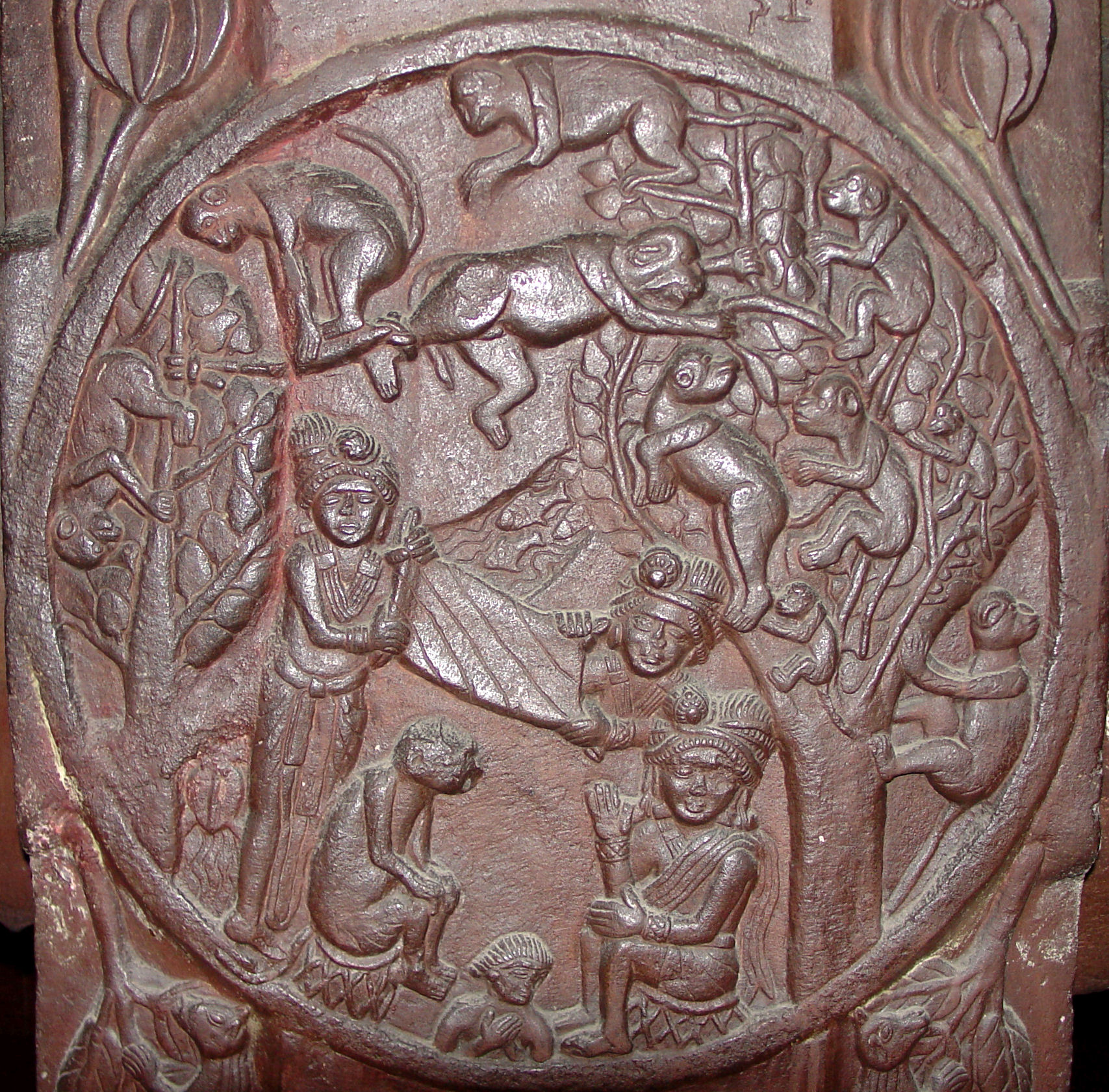 Mahakapi Jataka in Bharhut. In this jataka tale the Buddha, in a previous incarnation as a monkey king, self-sacrificingly offers his own body as a bridge by which his troop can escape from a human king who is attacking them. A short section of the river, across which the monkeys are escaping, is indicated by fish designs. Directly below that, the impressed humans are holding out a blanket to catch him when he falls. At the very bottom (continuous narrative), the now recovered Buddha-to-be preaches to the king.